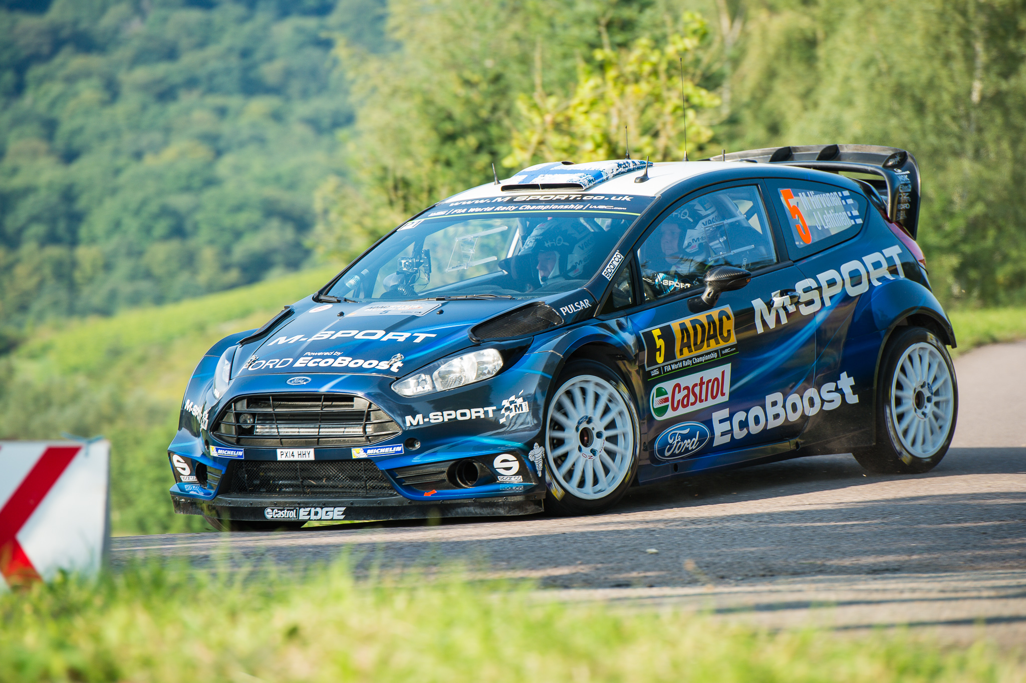 ADAC Rallye Deutschland 2014,FIA,FIA World Rally Championship,Ford Fiesta RS WRC,Jarmo Lehtinen,M-Sport WRT,M-Sport World Rally Team,Mikko Hirvonen,Motorsport,Rally,Rallye,Shakedown,WRC